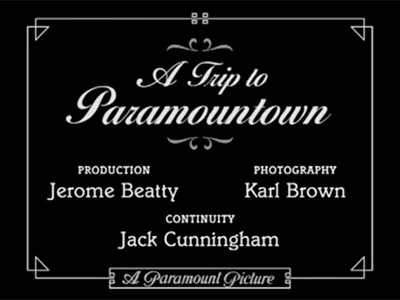 Opening title card for A Trip to Paramountown.